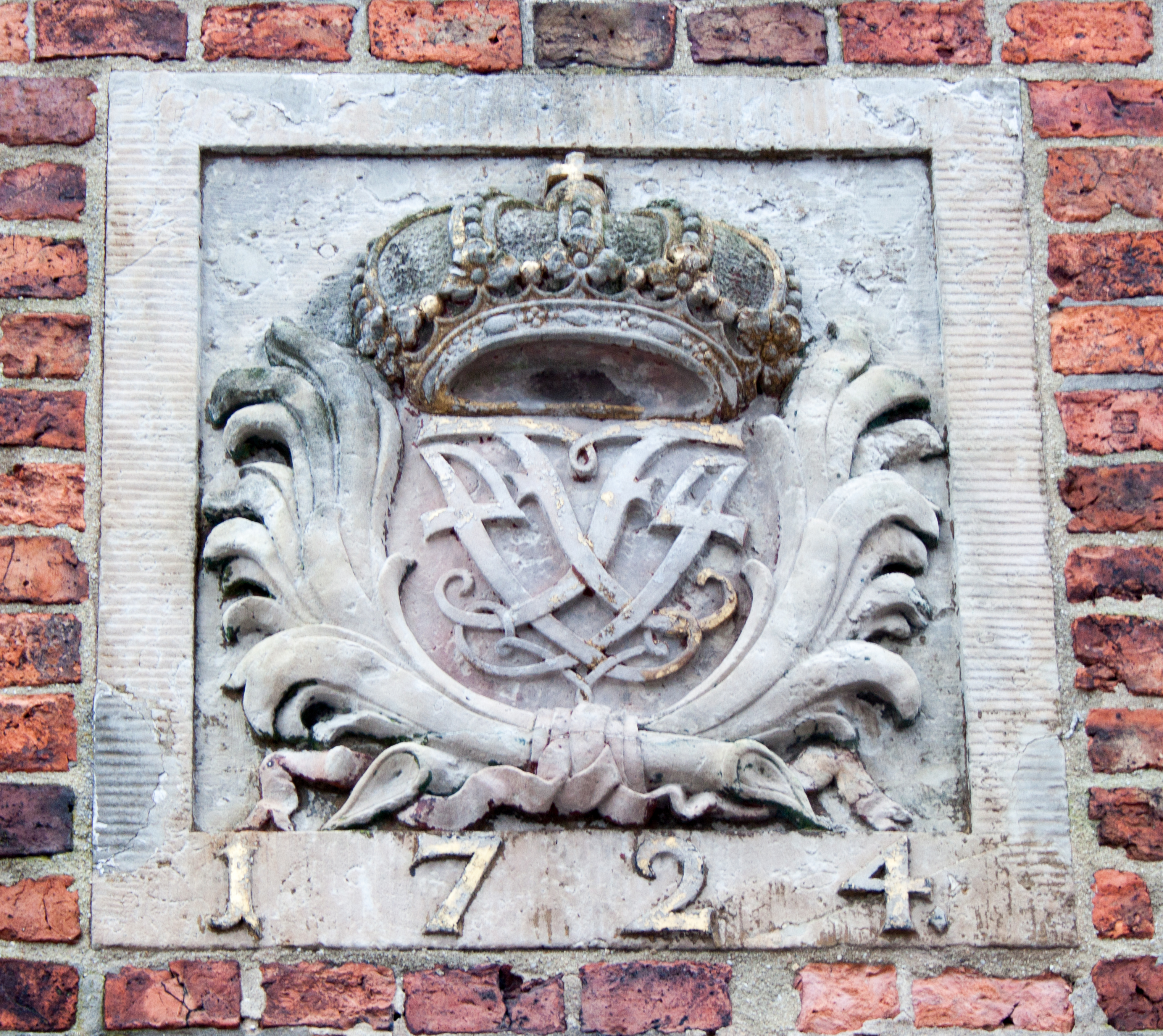 Royal monogram of Frederick IV of Denmark in Ribe